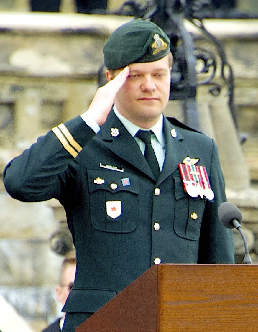 Rick Hansen (a civilian who is the Honorary Colonel for the Joint Personnel Support Unit) and Captain Simon Mailloux had co-emcee duties yesterday; at the National Day of Honour Ceremony on Parliament Hill. Marking the end of the military mission in Afghanistan. I think Rick's story is well known to most Canadians. Capt Mailloux was injured by an IED in Afghanistan, in 2007, had a leg amputated, went through recovery with a prosthetic, got back to deployable status and redeployed as a combatant in 2009. To steal a term from my US friends "Hooah!"